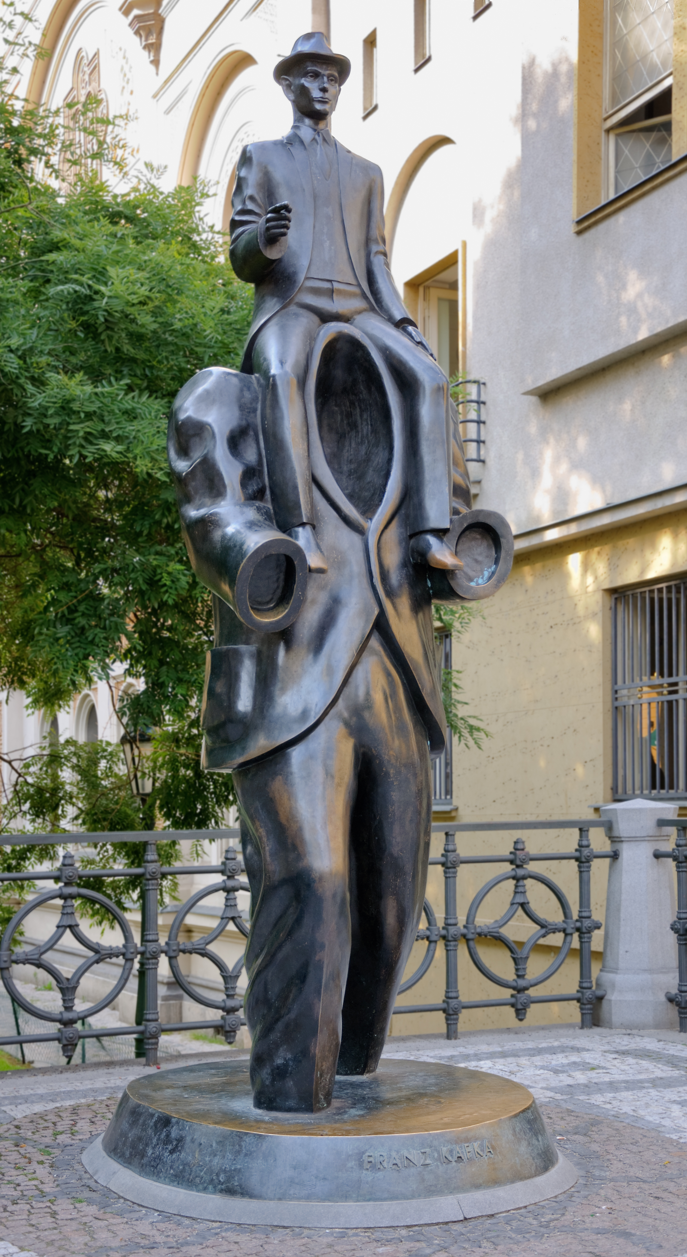 Monument to Franz Kafka by the sculptor Jaroslav Róna (2003), next to the Spanish synagoge, in Prague, Czech Republic. Bronze, height 375cm.Note: Freedom of panorama#Czech Republic